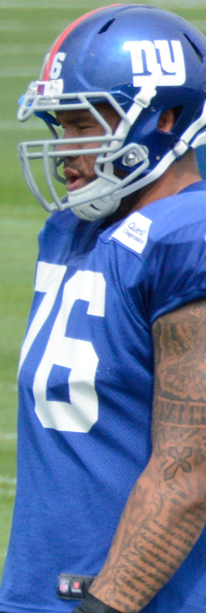 New York Giants training camp